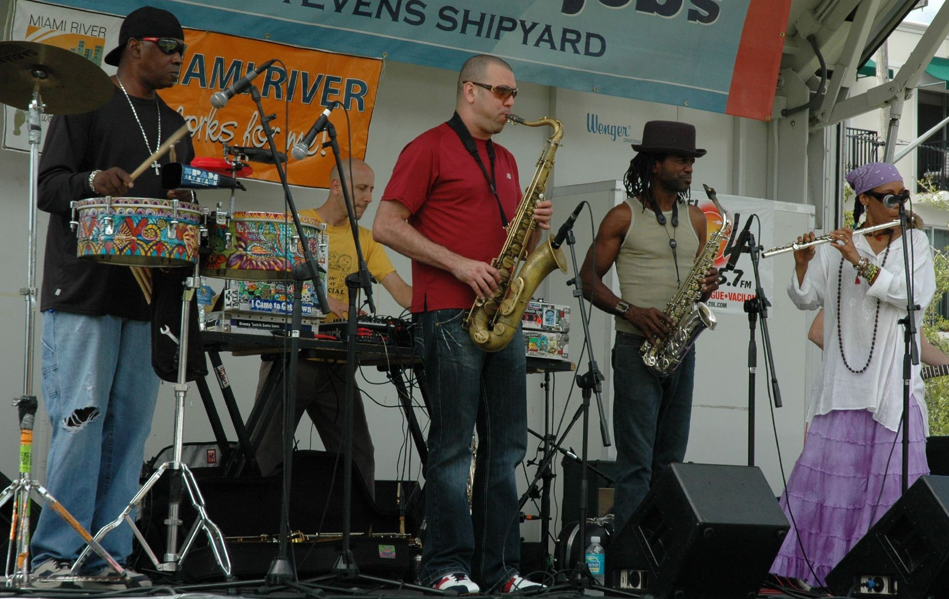 Spam Allstars performing at Miami River Festival in Jose Marti Park.